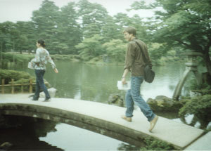 Taken in Kanazawa, Japan in 2003 by Asuna during Japanese tour.